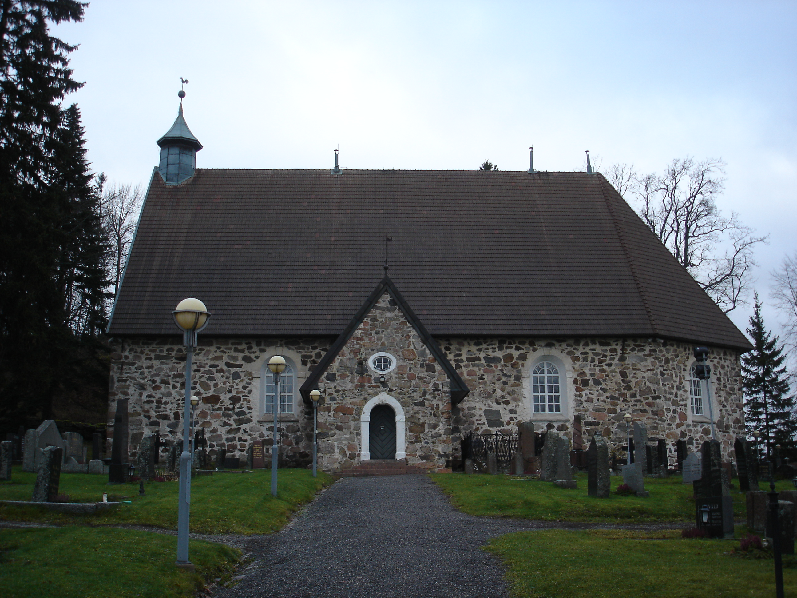 The church of Piikkiö.